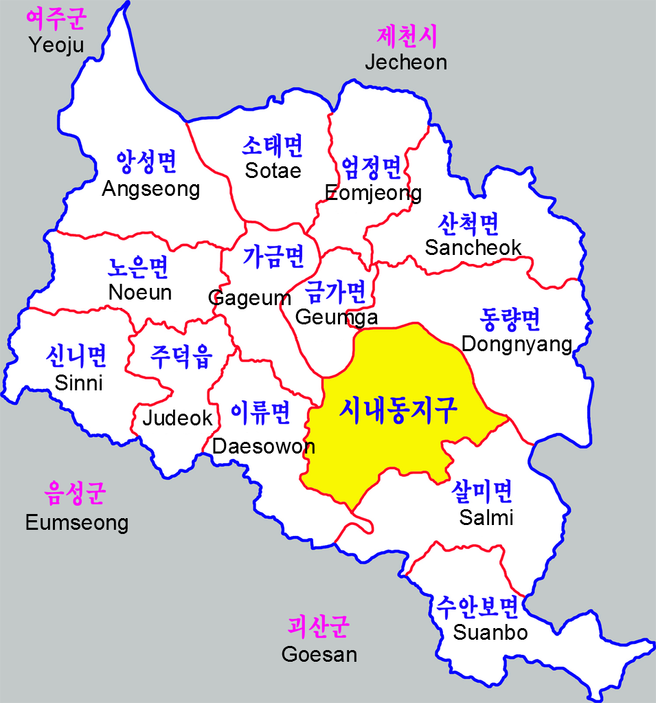 Subdivisions of Chungju